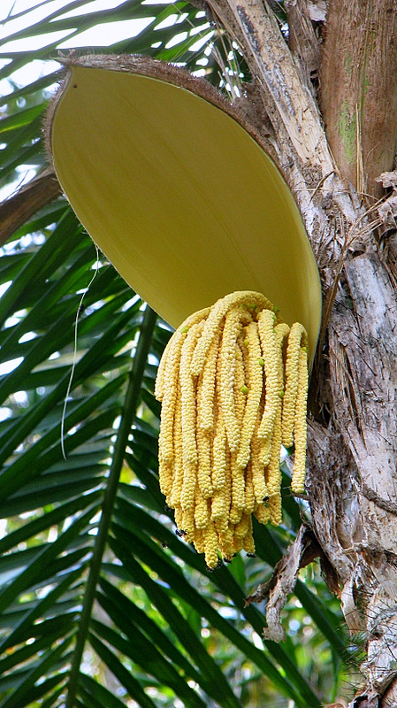 Bactris gasipaes, Entre Rios, Bahia, Brazil